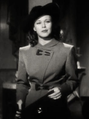 Ginger Rogers in Kitty Foyle - trailer (cropped screenshot)